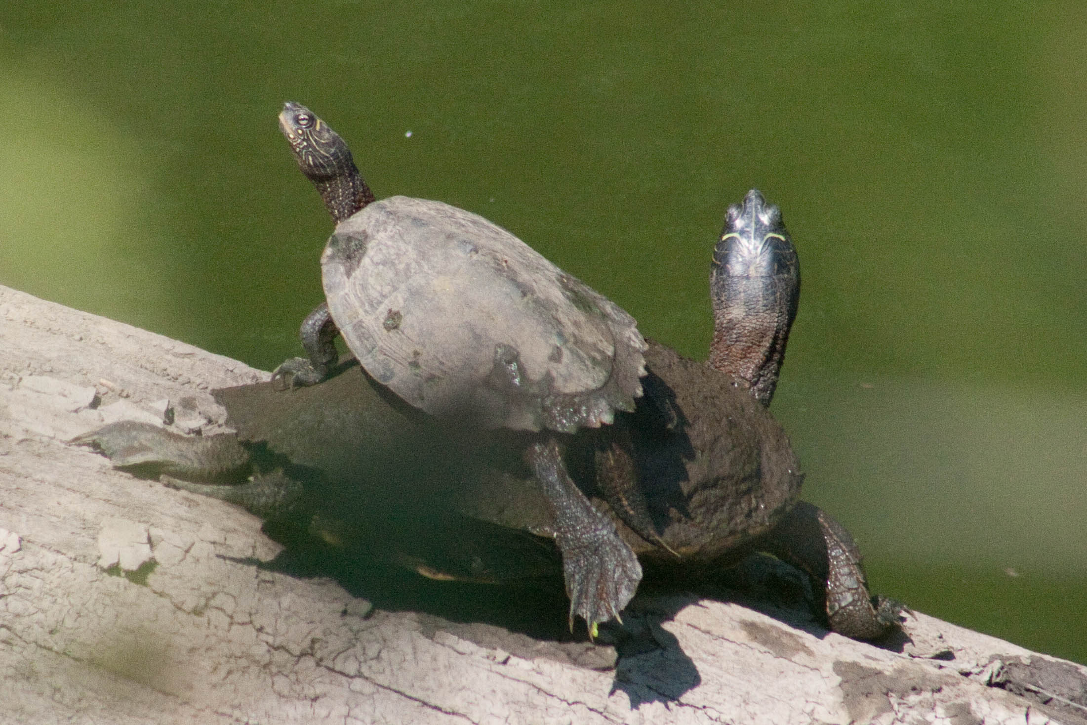 A male and female False Map Turtle (Graptemys pseudogeographica) basking on a log showing the head markings on the side and back of their heads.